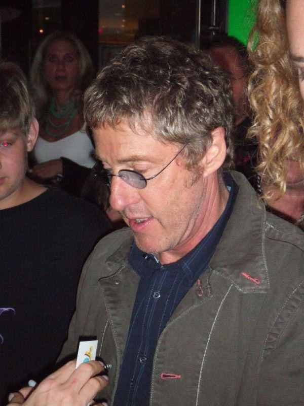 Dude's ancient but still lookin' sharp. My camera battery ran out before I could get a picture of Pete. Lame. Plus his autograph smudged too!